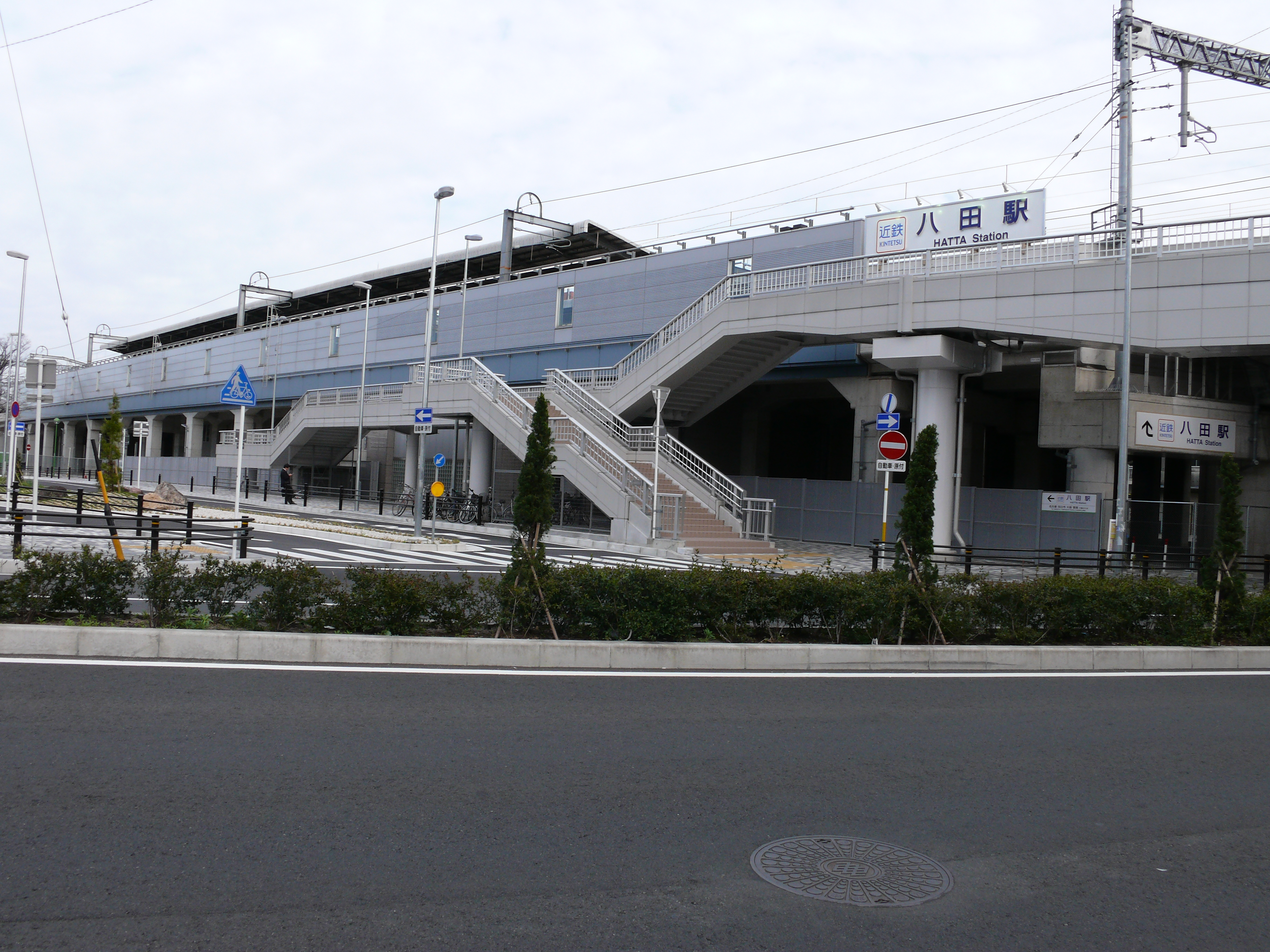 Kintetsu of Hatta Station.